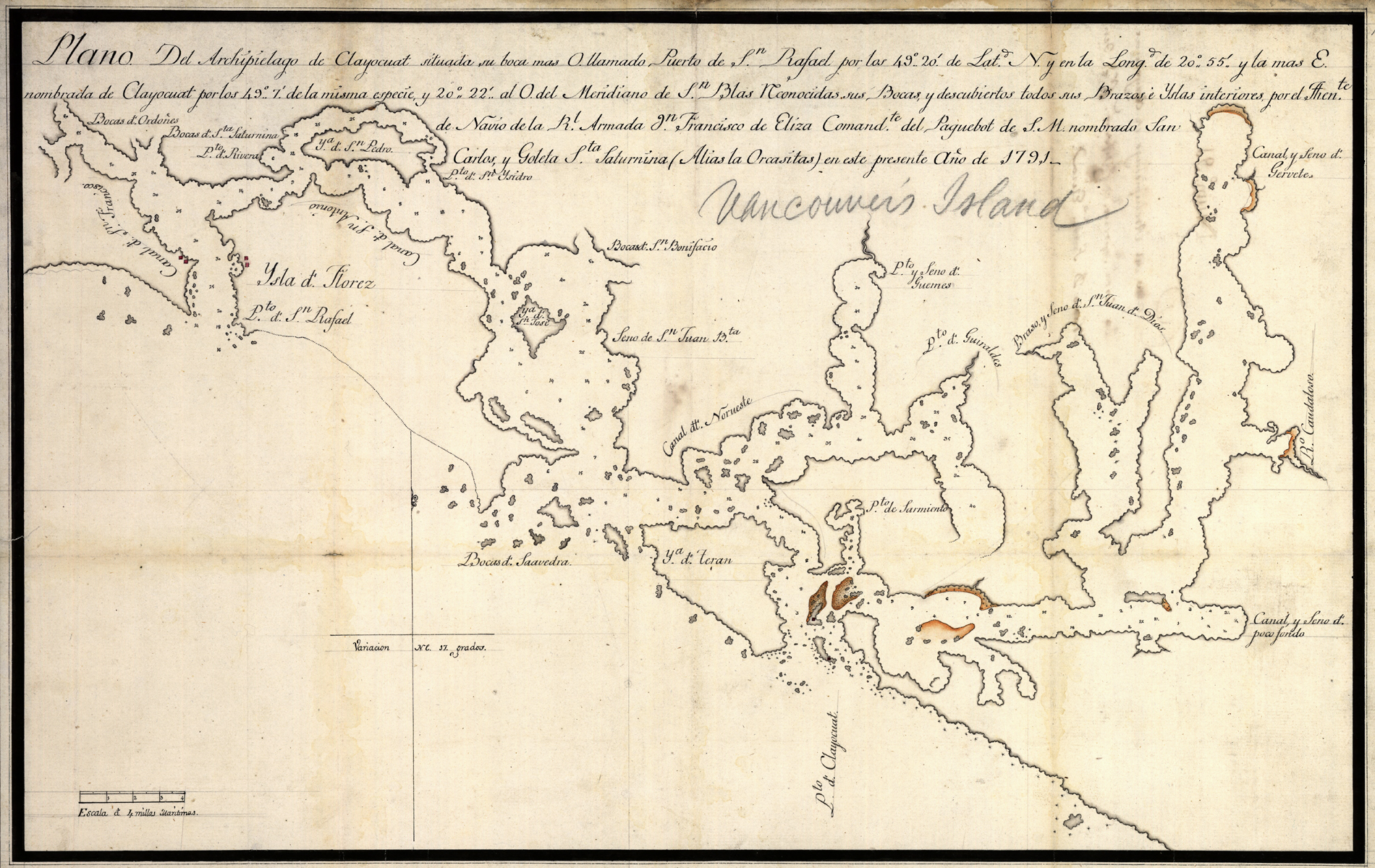 Spanish map of Clayoquot Sound from 1791. One page of an atlas, sheet 14: "Plano del Archipielago de Clayocuat...1791", 44 x 69 1/2 cm, was prepared during Francisco Eliza's 1791 expedition to examine Bucareli Sound, the Strait of Fonte, the Entrada de Hezeta, the bays on the south side of Vancouver Island, and the Strait of Juan de Fuca. The atlas was transferred to the Library of Congress from the U.S. War Department in 1929. The full title of the map is: Plano del Archipielago de Clayocuat situada su boca mas O. llamado Puerto de Sn. Rafael por los 49°20′ de Latd. N. y en la Longd. de 20°55′ y la mas E. nombrada de Clayocuat por los 49°7′ de la misma especie y 20°22′ al O. del Meridiano de Sn. Blas Reconocidas sus Bocas y descubiertos todos sus Brazos e Yslas interiores por el Thente. de Navio de la Rl. Armada Dn. Francisco de Eliza Comandte. del Paguebot de S.M. nombrado San Carlos y Goleta Sta. Saturnina (Alias la Orcasitas) en este presente Año de 1791. The full title of the atlas is: Libro 2º. Cartas Esfericas y Planos de los Puertos situados sobre las Costas Septentrionales de las Californias è Yslas adyacentes, descubiertos por los Españoles. Ordenados Por un Oficial de la Marina Real Española. [Pacific Coast extending from Mexico to Alaska]. 1799. Atlas, 25 colored pen-and-ink ms.